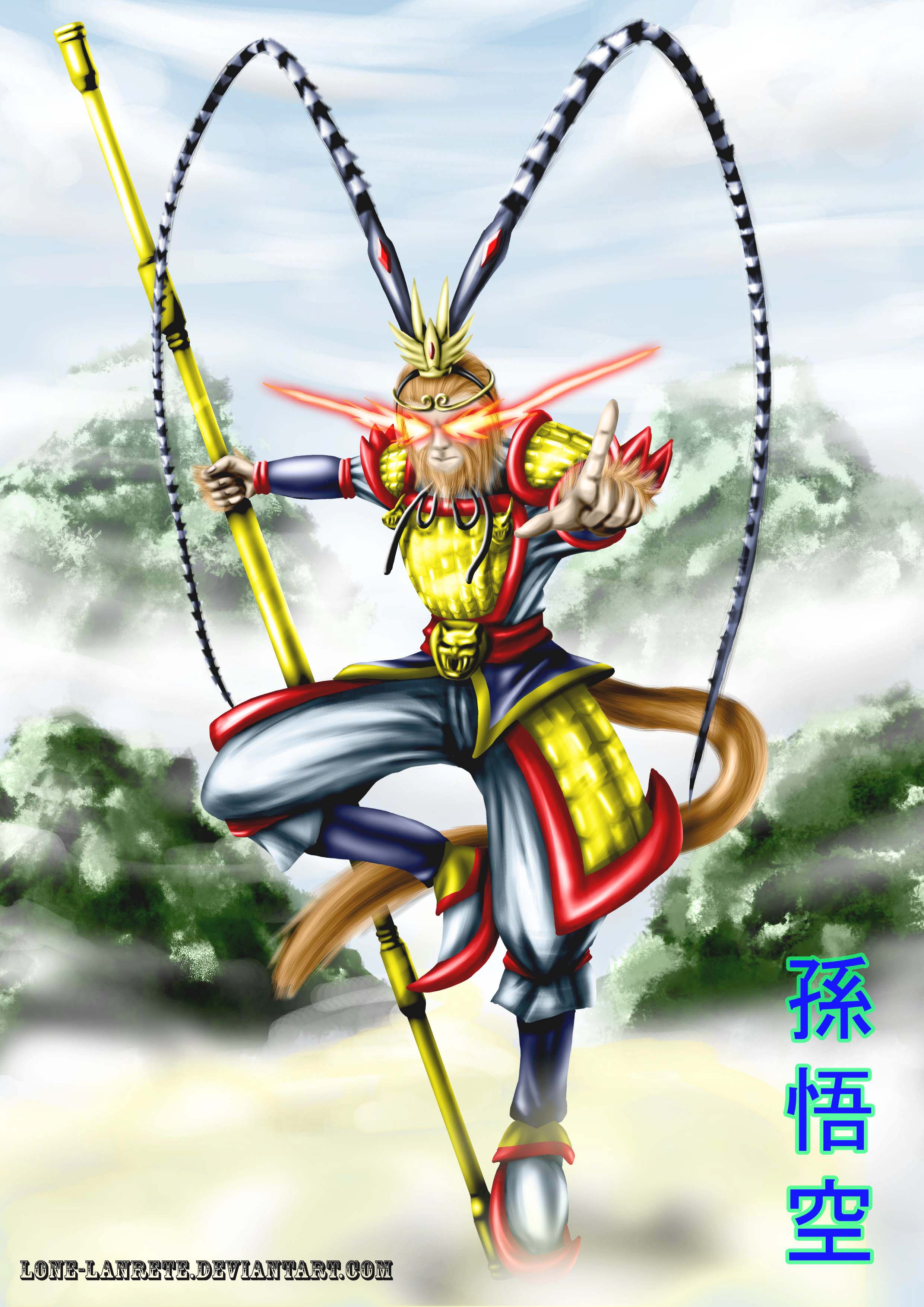 Journey to The West